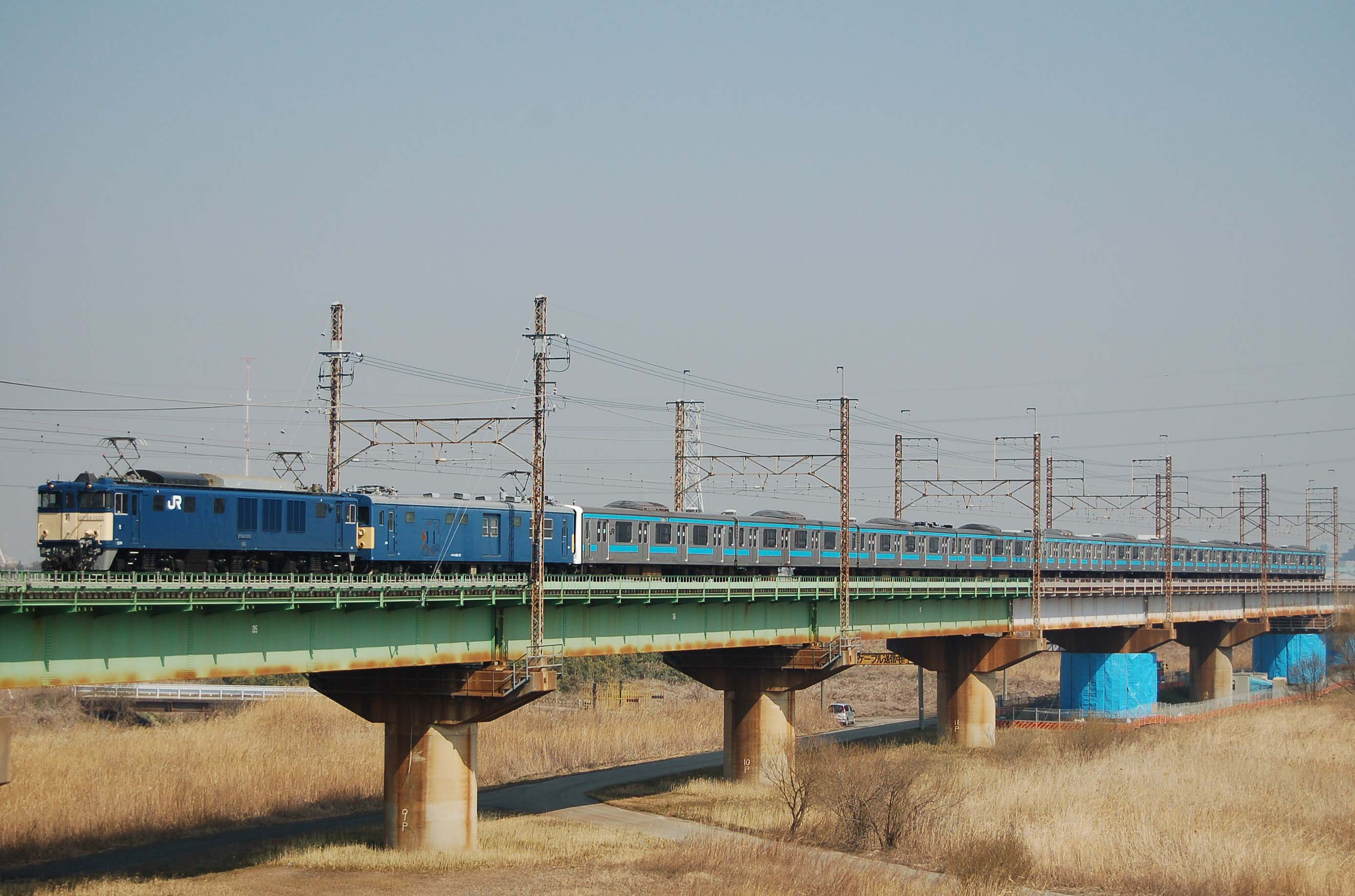 JR East Class EF64-1000 electric Locomotive EF64-1030 hauling a withdrawn 209 series EMU